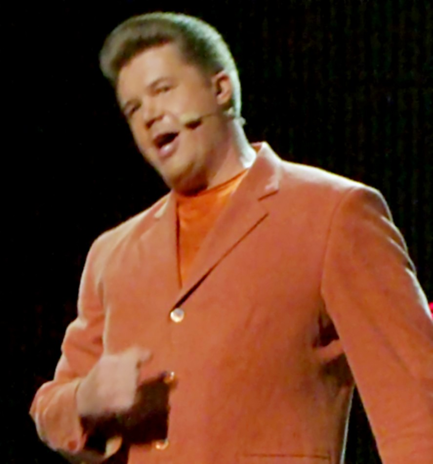 Estonian humourist, journalist, politician and fashion designer Hannes Võrno performing in Eurovision Song Contest 2008 with Kreisiraadio - Leto svet